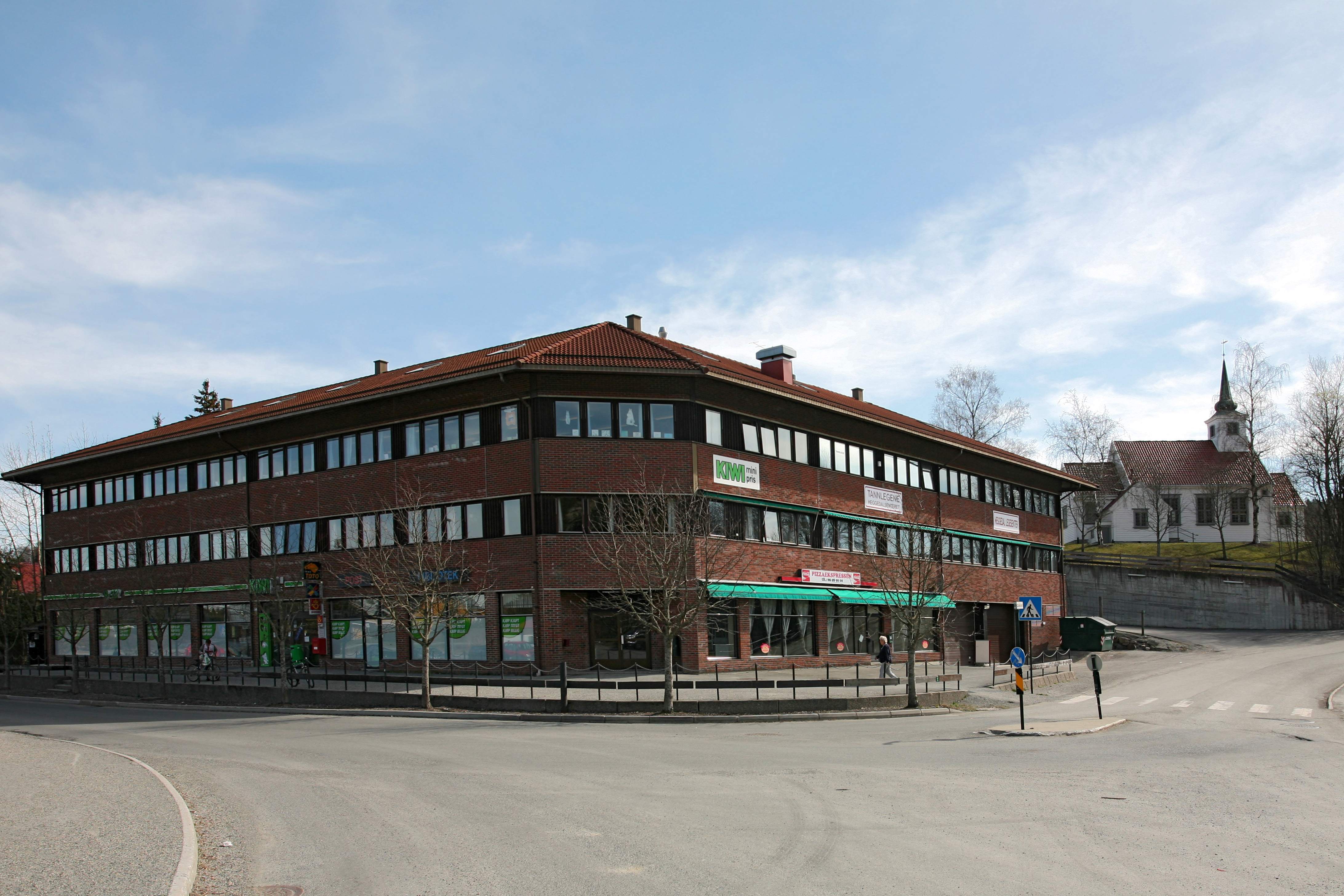 Picture of Heggedal (Norway)